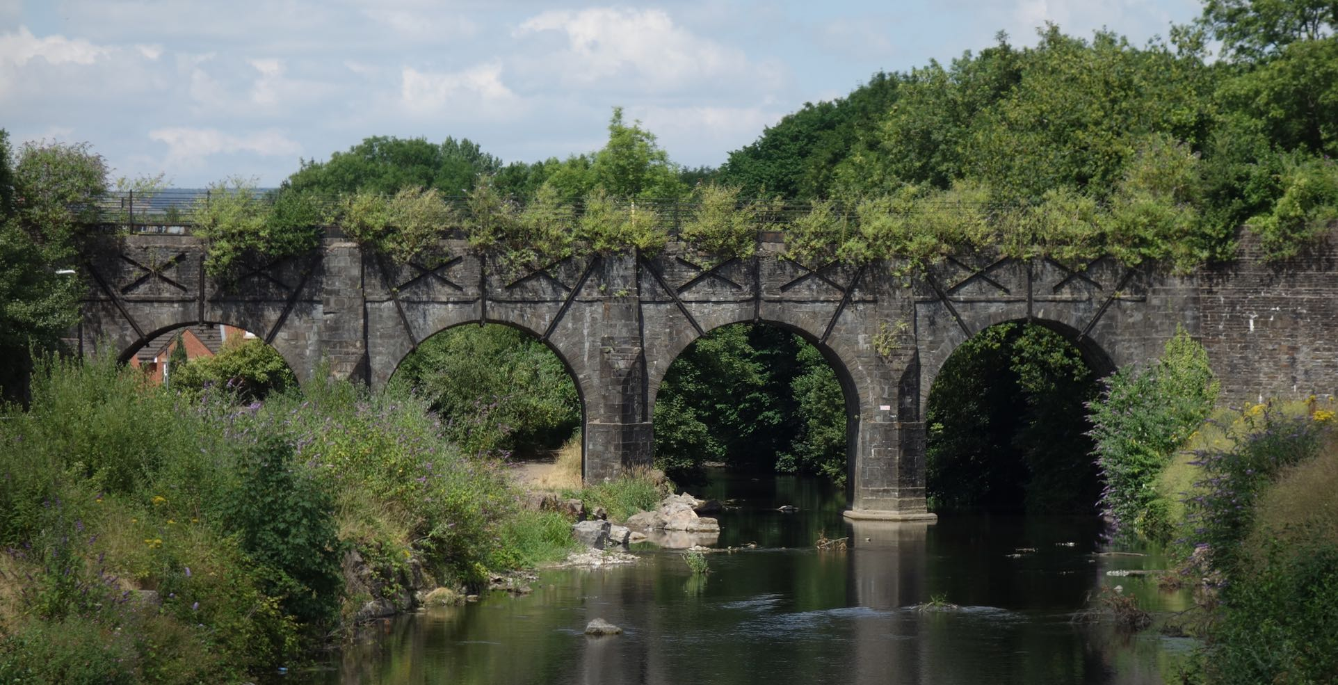 Bassaleg Viaduct, believed to be the world's oldest operational railway viaduct, built for the Rumney Railway in 1826 over the Ebbw River at Bassaleg, a suburb on the west side of the city of Newport, in south Wales